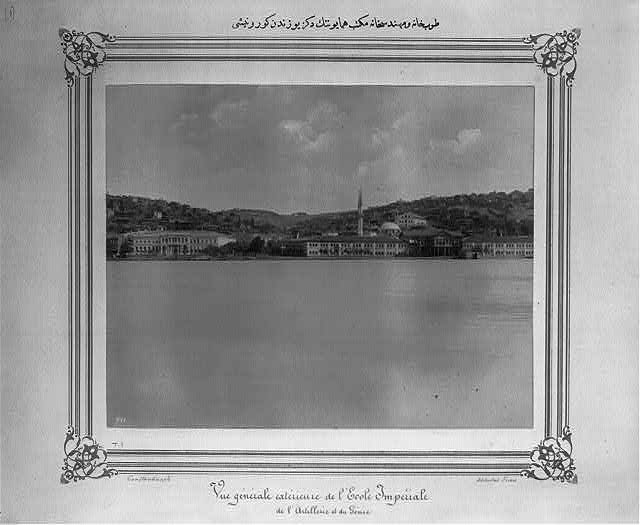 [View from the sea of Tophane and the Imperial School of Engineering]